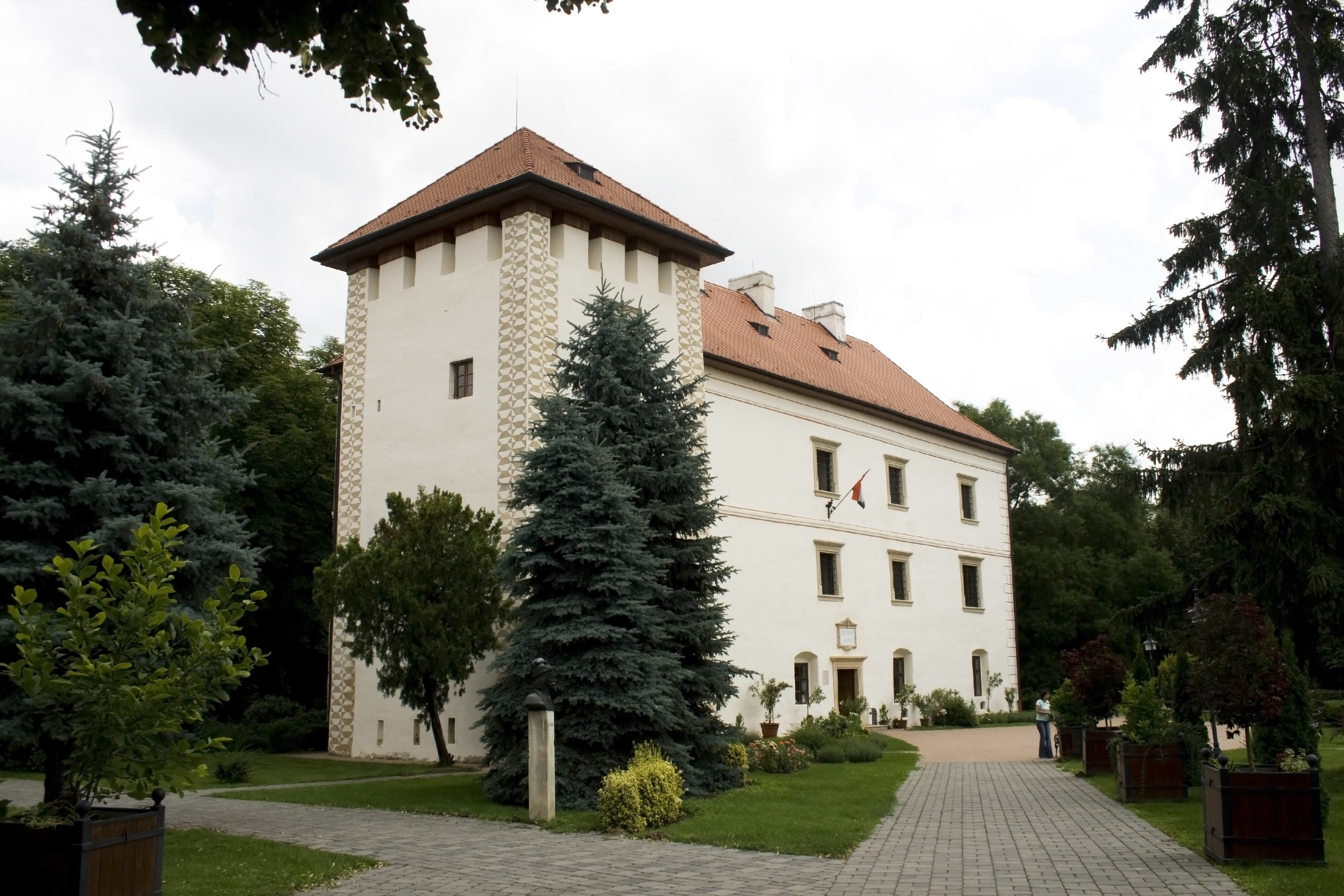 Castle of Vaja, Hungary